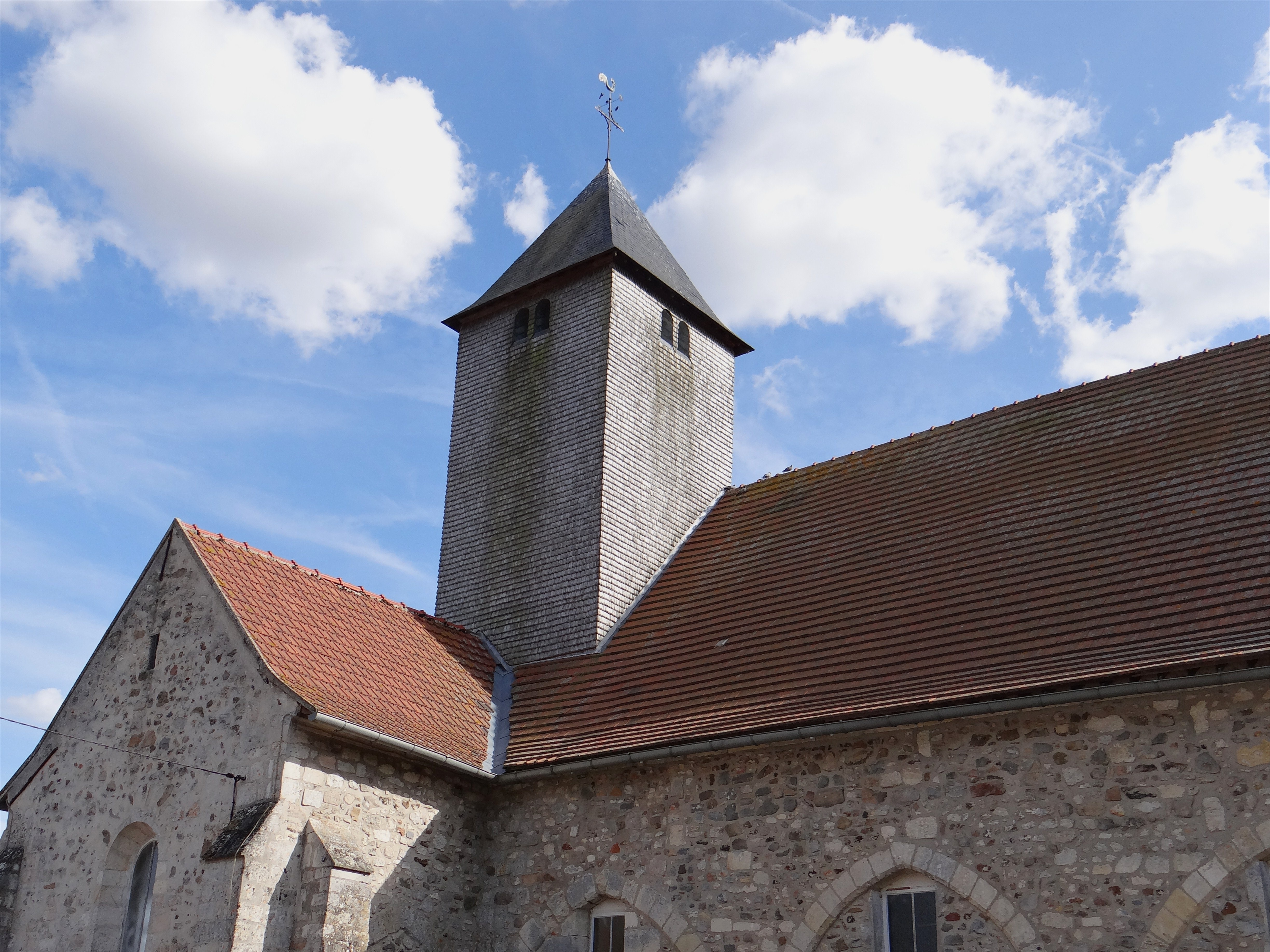 Bargny Church (XIII century), the Oise, France